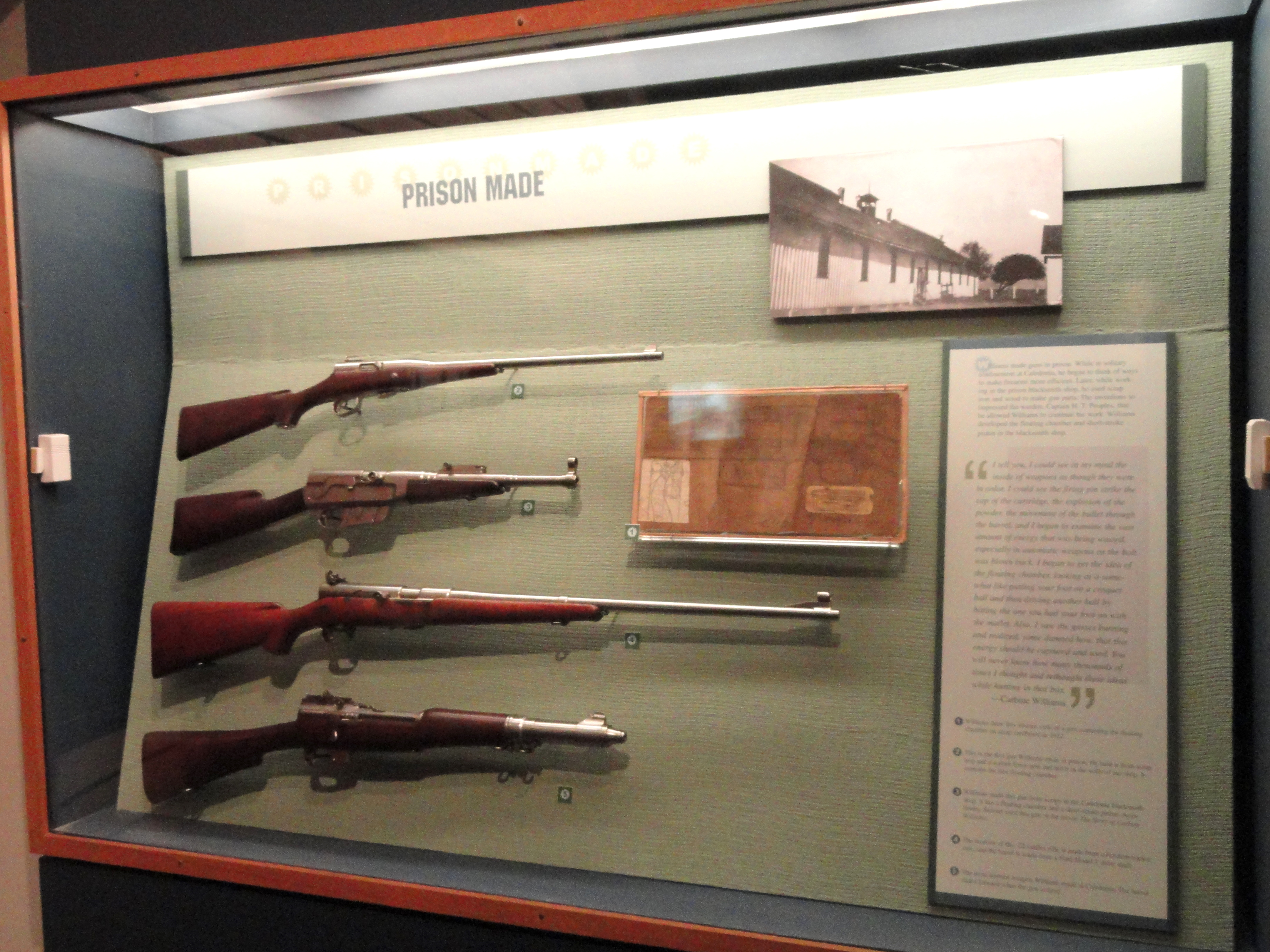 "Carbine" Williams exhibit in the North Carolina Museum of History, Raleigh, North Carolina, USA. This exhibit displays carbines produced by inventor and gunsmith David Marshall Williams, as well as his complete workshop.